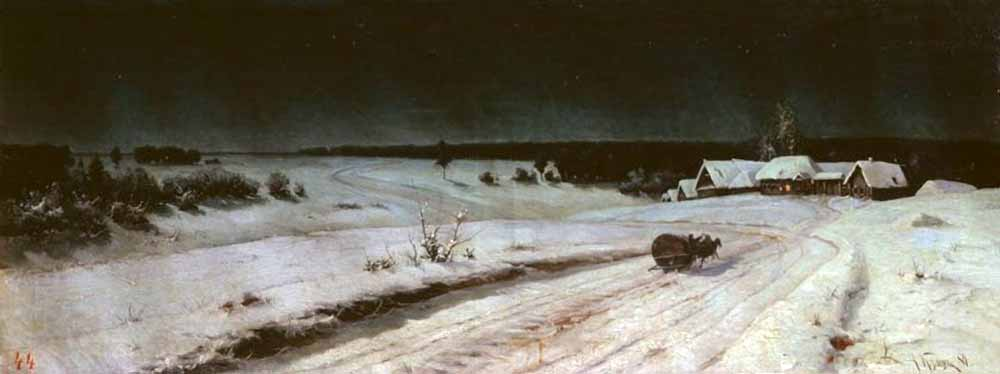 Frosty night.